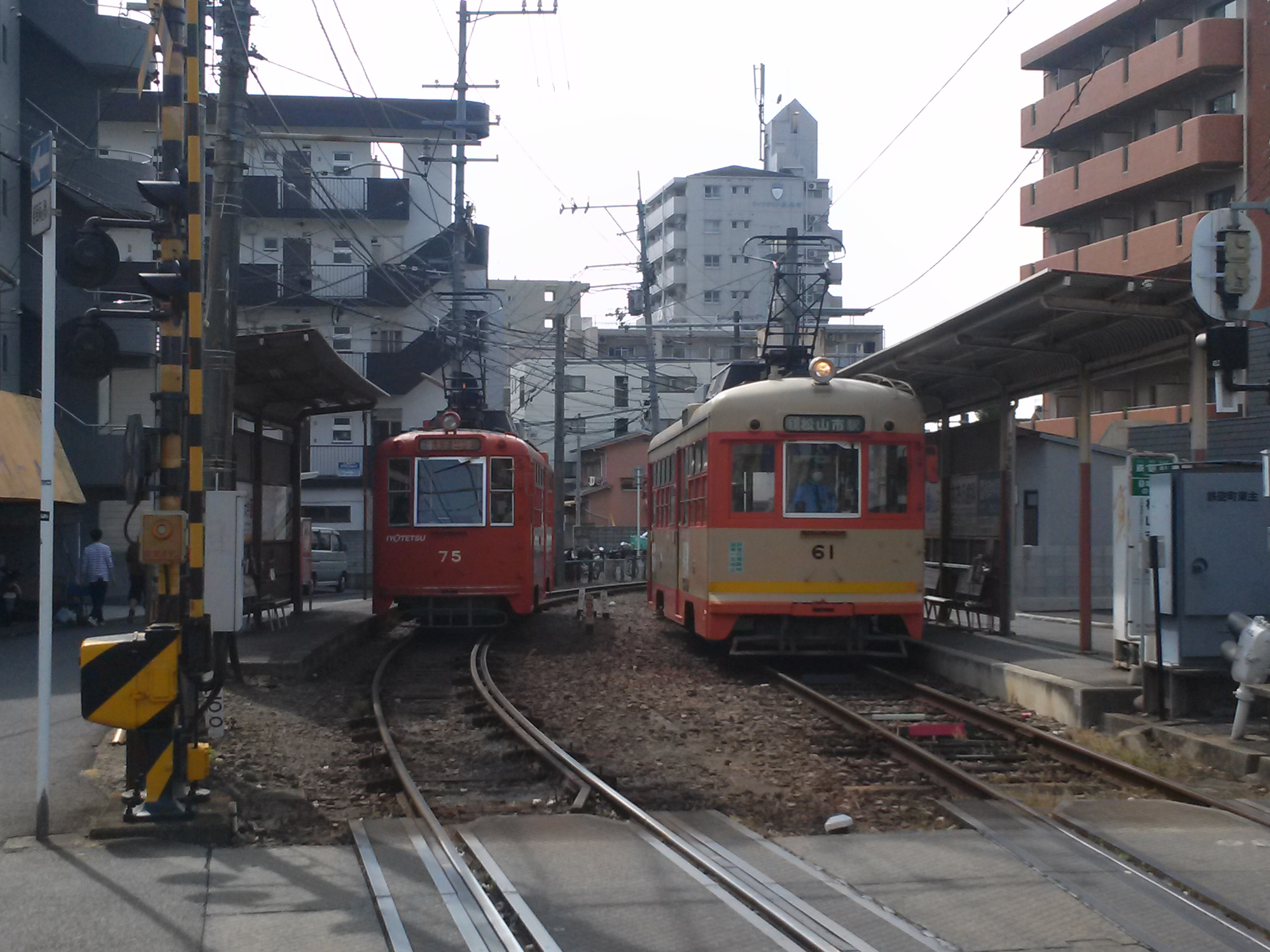 伊予鉄道城北線 鉄砲町駅 Iyo RailWay Jhohoku Line TeppoCho Station at Matsuyama City Japan